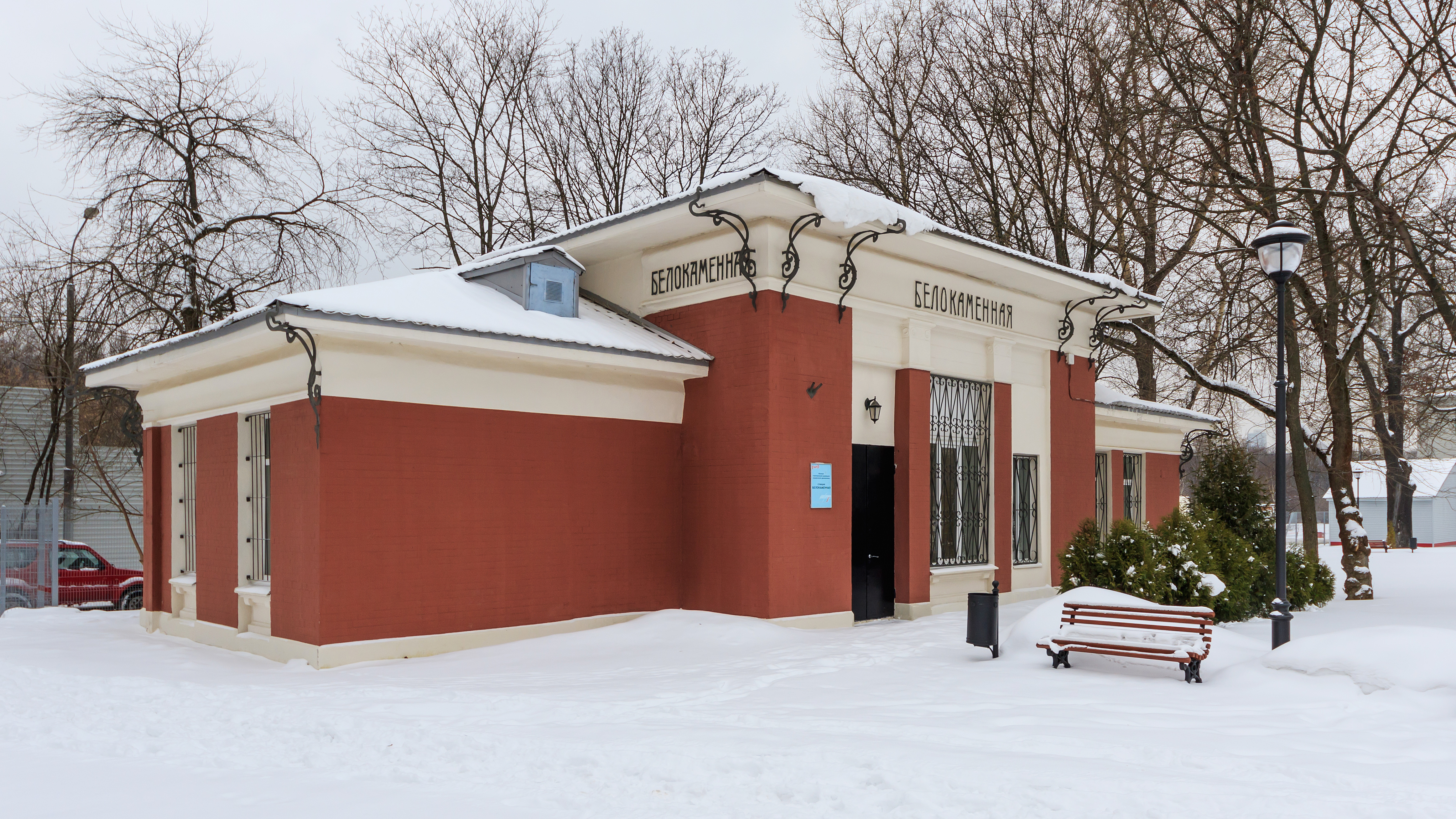 Belokamennaya MCC station (old station building) in Moscow, Russia